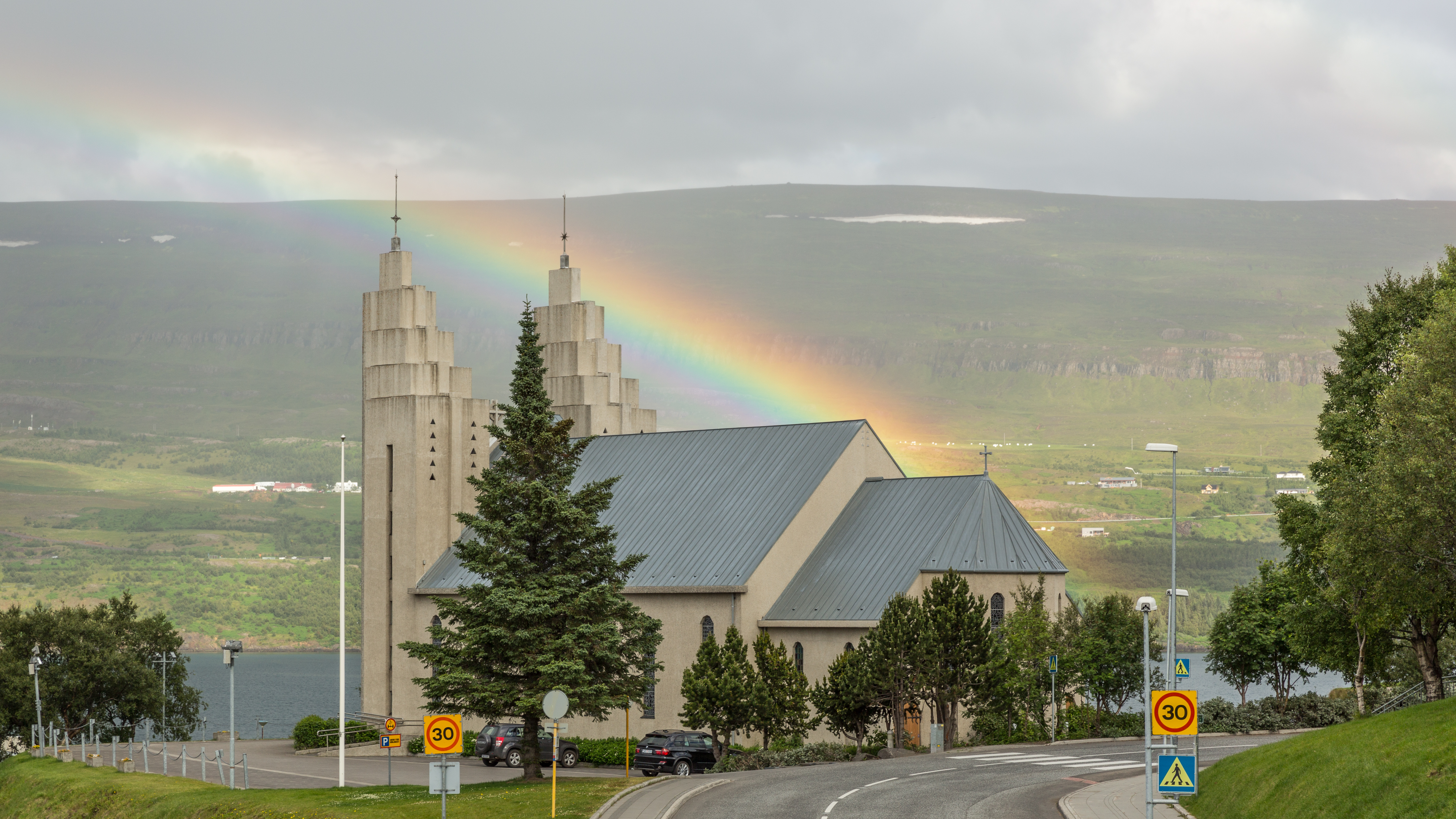 church and rainbow in Akureyri